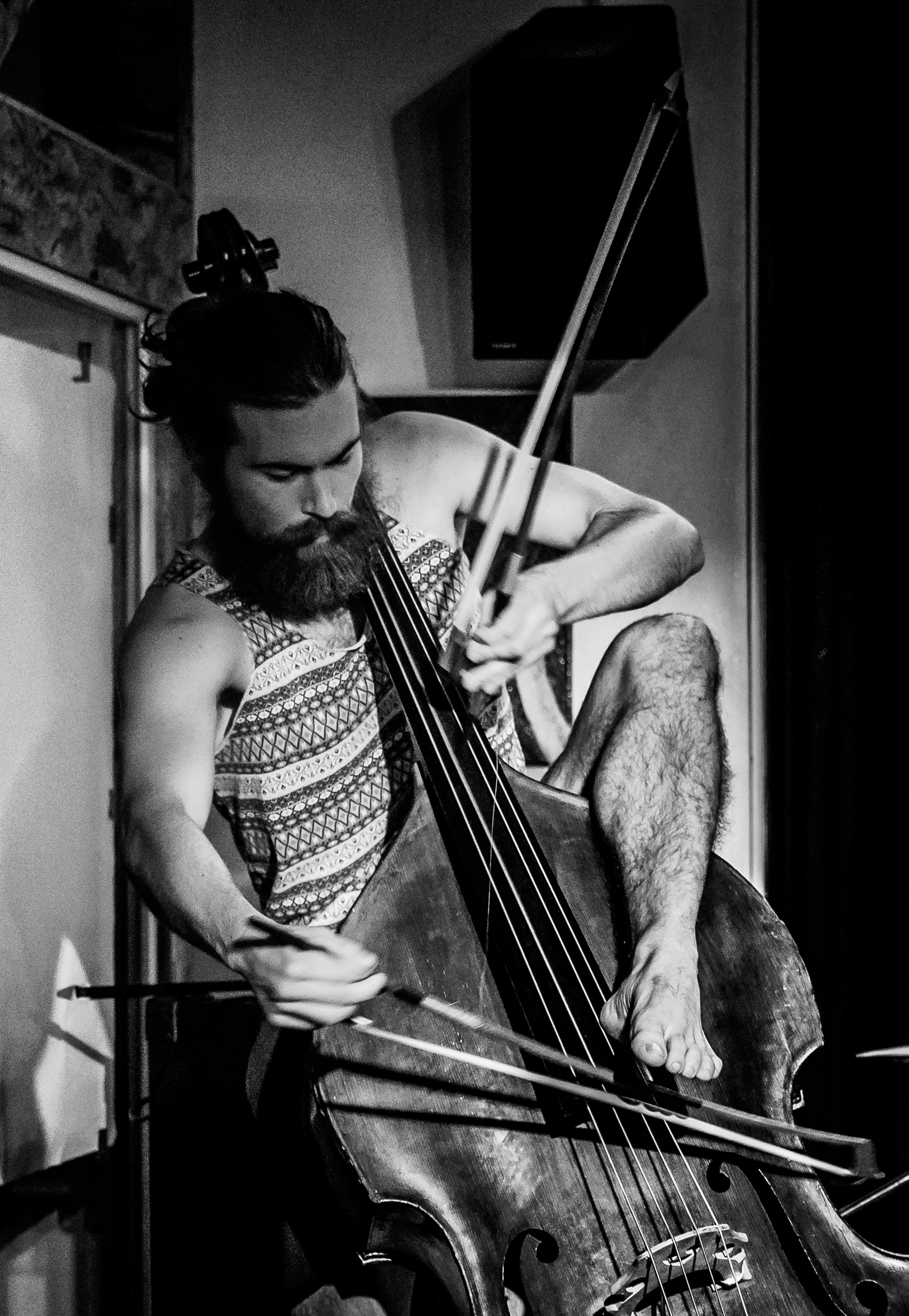 Christian Meaas Svendsen playing with bows, chin and foot.